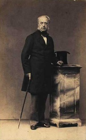 Ehrenreich Christopher Ludvig Moltke (1790-1864), Danish Count, jurist, diplomat, and district officer